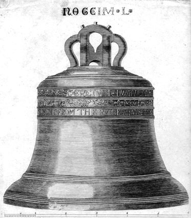 This print of the bell named Great Tom depicts one of the great bells associated with both the Palace of Westminster and St Paul’s Cathedral, England.